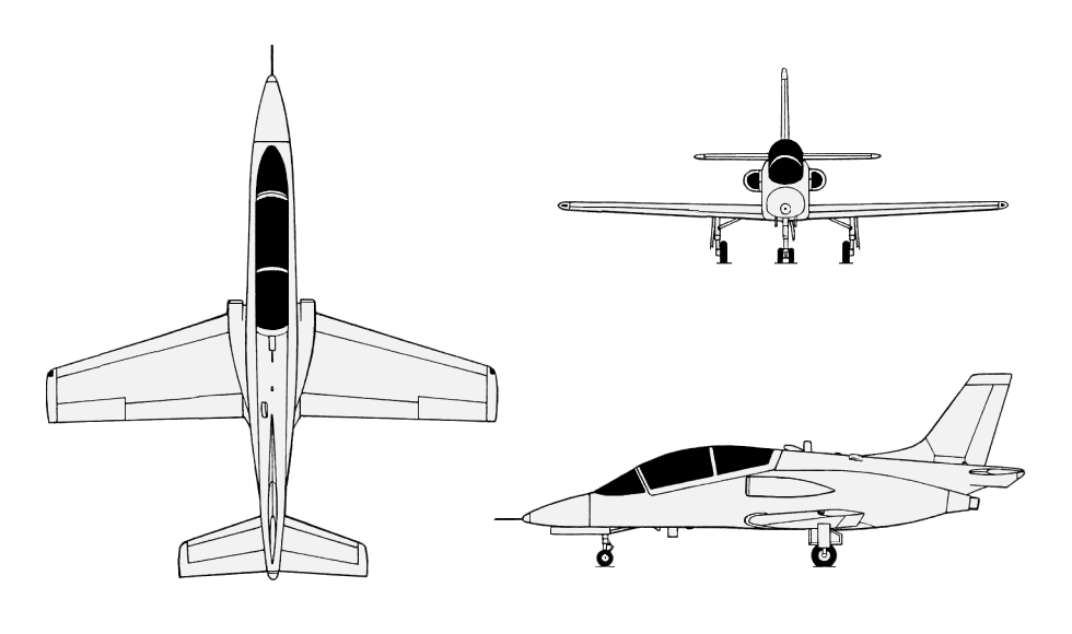 Profil of the Hindustan Aeronautics Ltd. HJT-36 Sitara